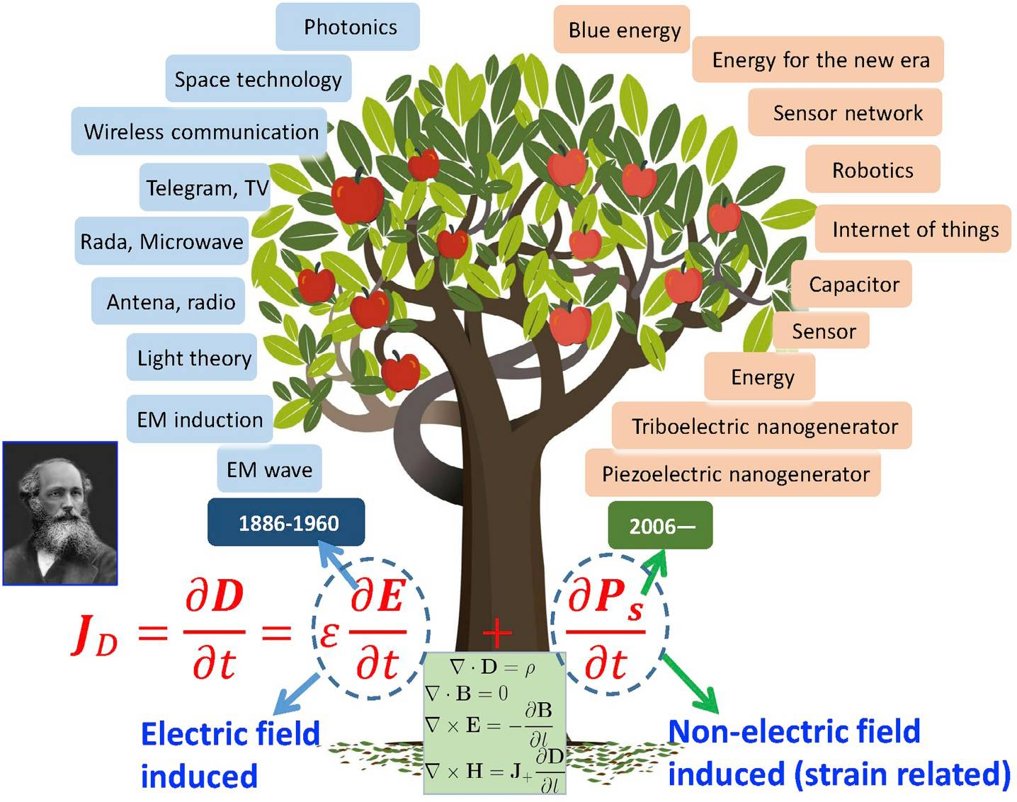 Fig. 3. A tree idea to illustrate the newly revised Maxwell's displacement current: the first term is responsible for the electromagnetic waves theory; and the newly added term is the applications of Maxwell's equations in energy and sensors.